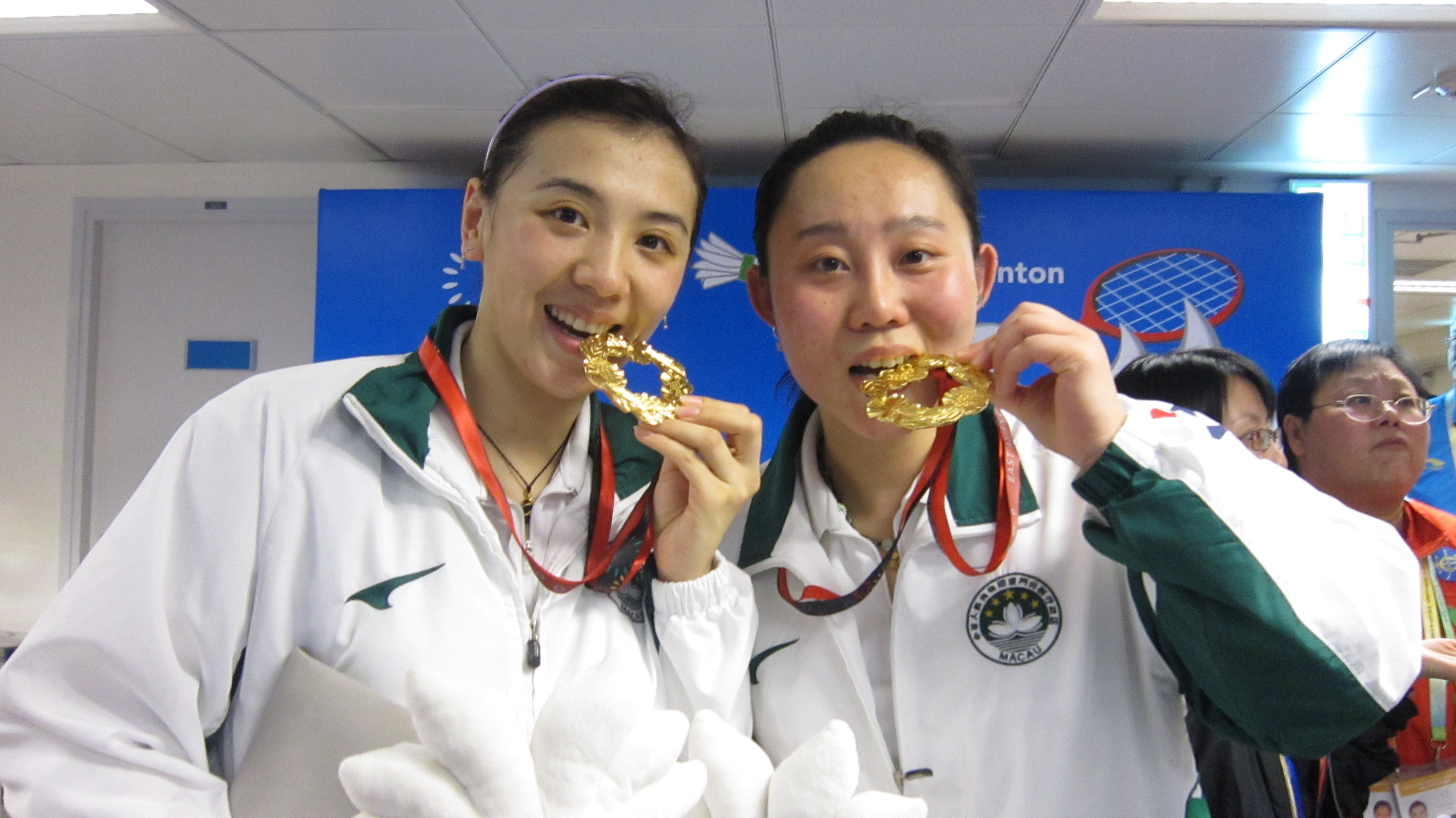 Hong Kong East Asian Games